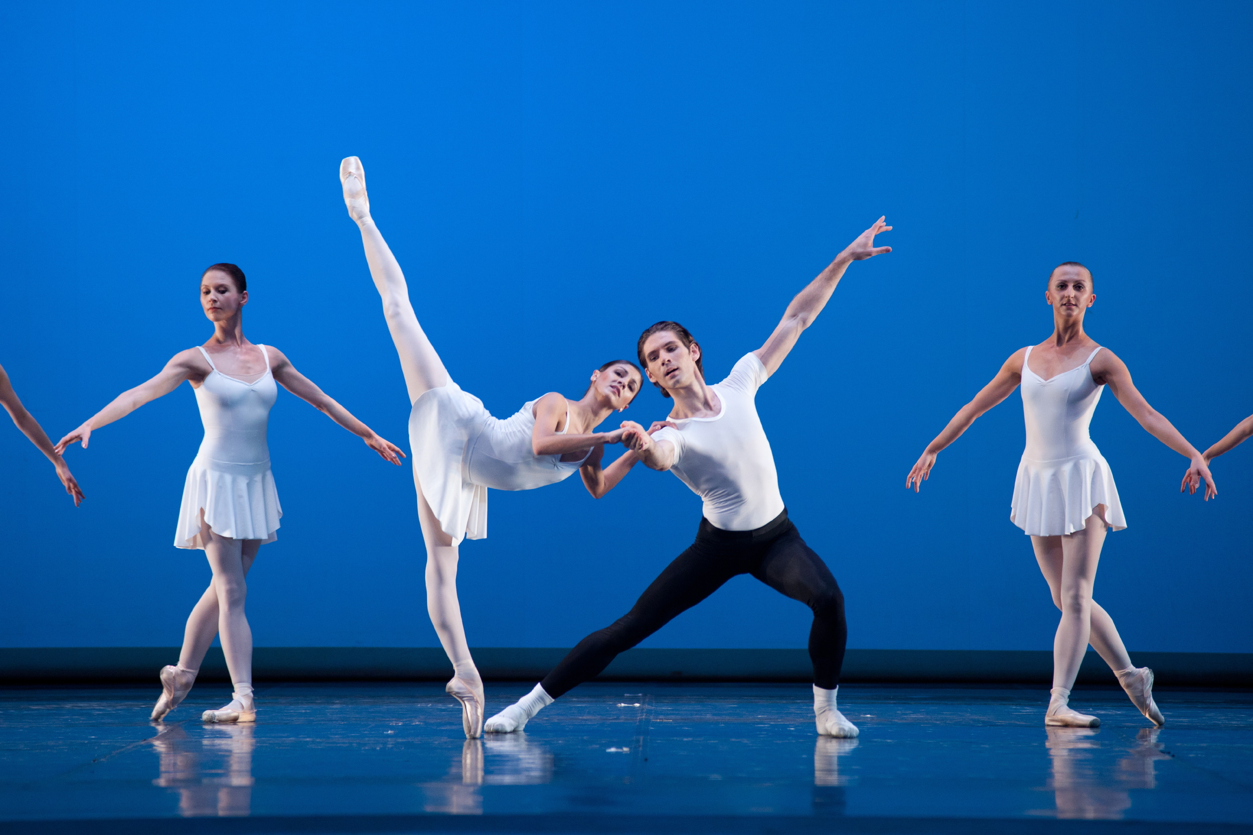 "Concerto Barocco" by George Balanchine, Polish National Ballet, dancers: Maria Żuk & Vladimir Yaroshenko and Aneta Zbrzeźniak & Alicja Złoch